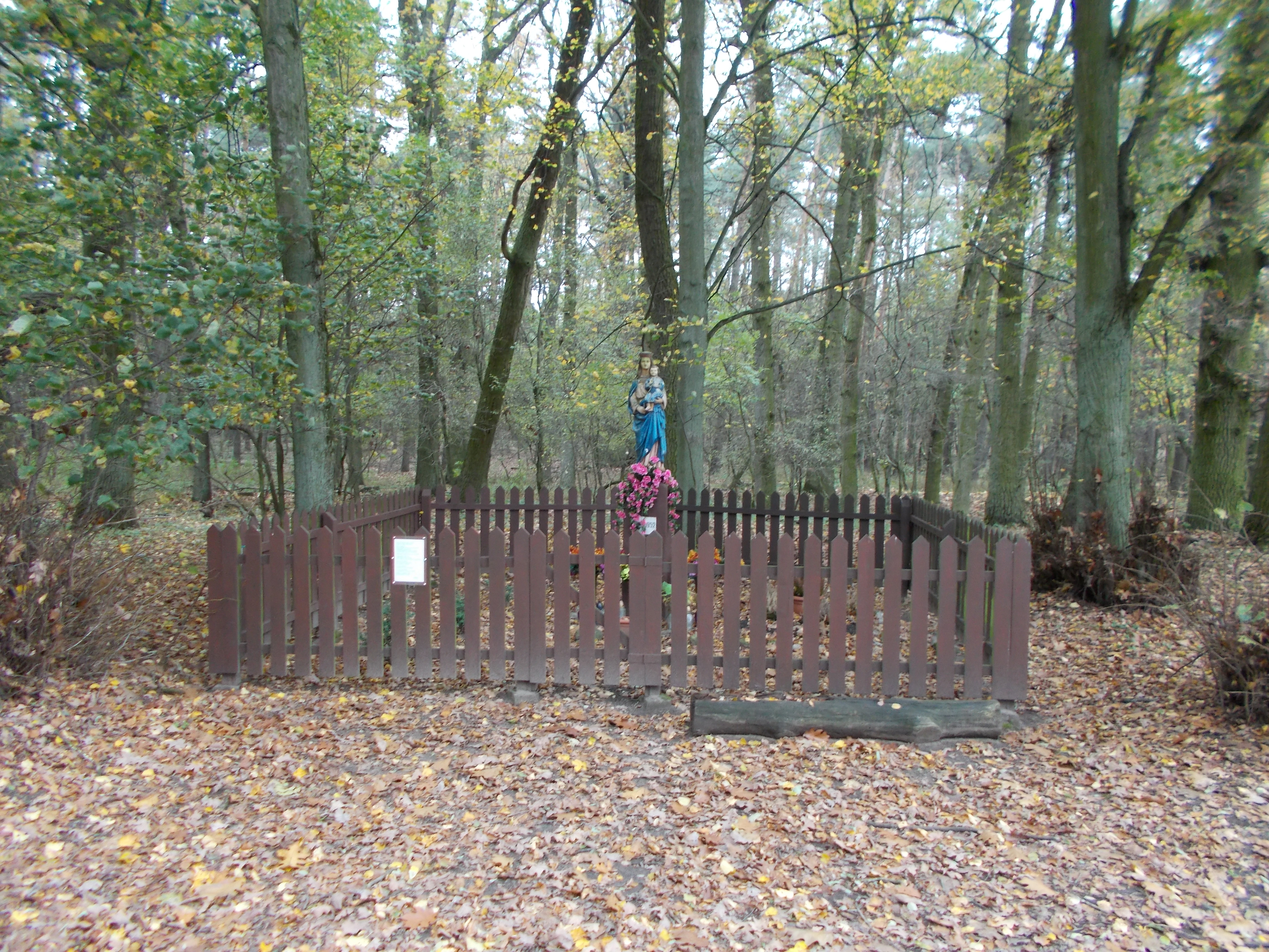 Figure of the Mother of God (Maruszka)